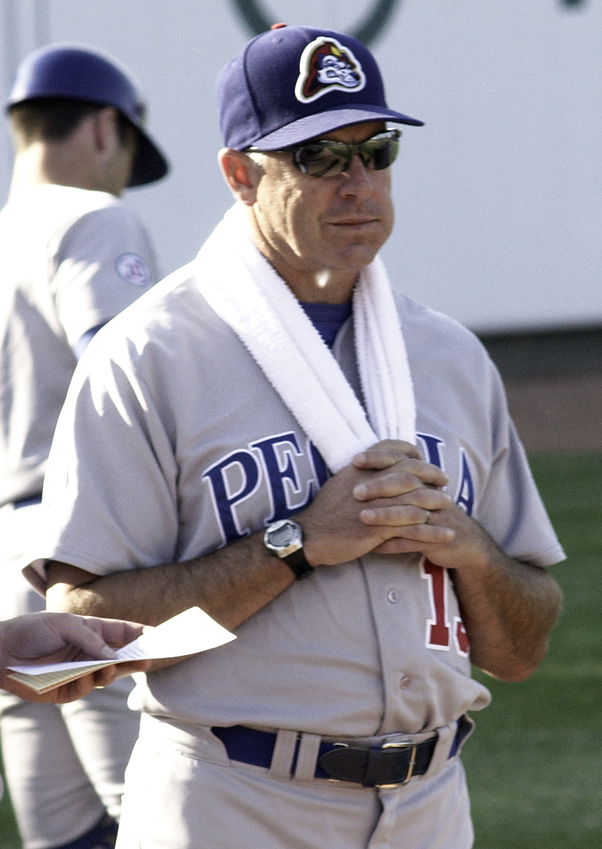 Casey Koptzke (left) and Jeff Fassero (right) of the Peoria Chiefs